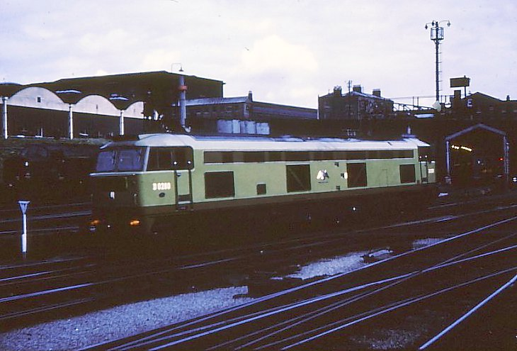 British Rail Class 53 number D0280 (Falcon) at King's Cross station, London